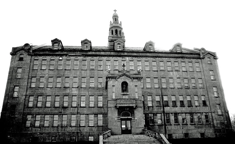 Seminary and then college of the Brothers of Christian Instruction of St Gabriel on the Mont Saint-Bruno in Québec. The building was constructed in 1924 and demolished in 1991.